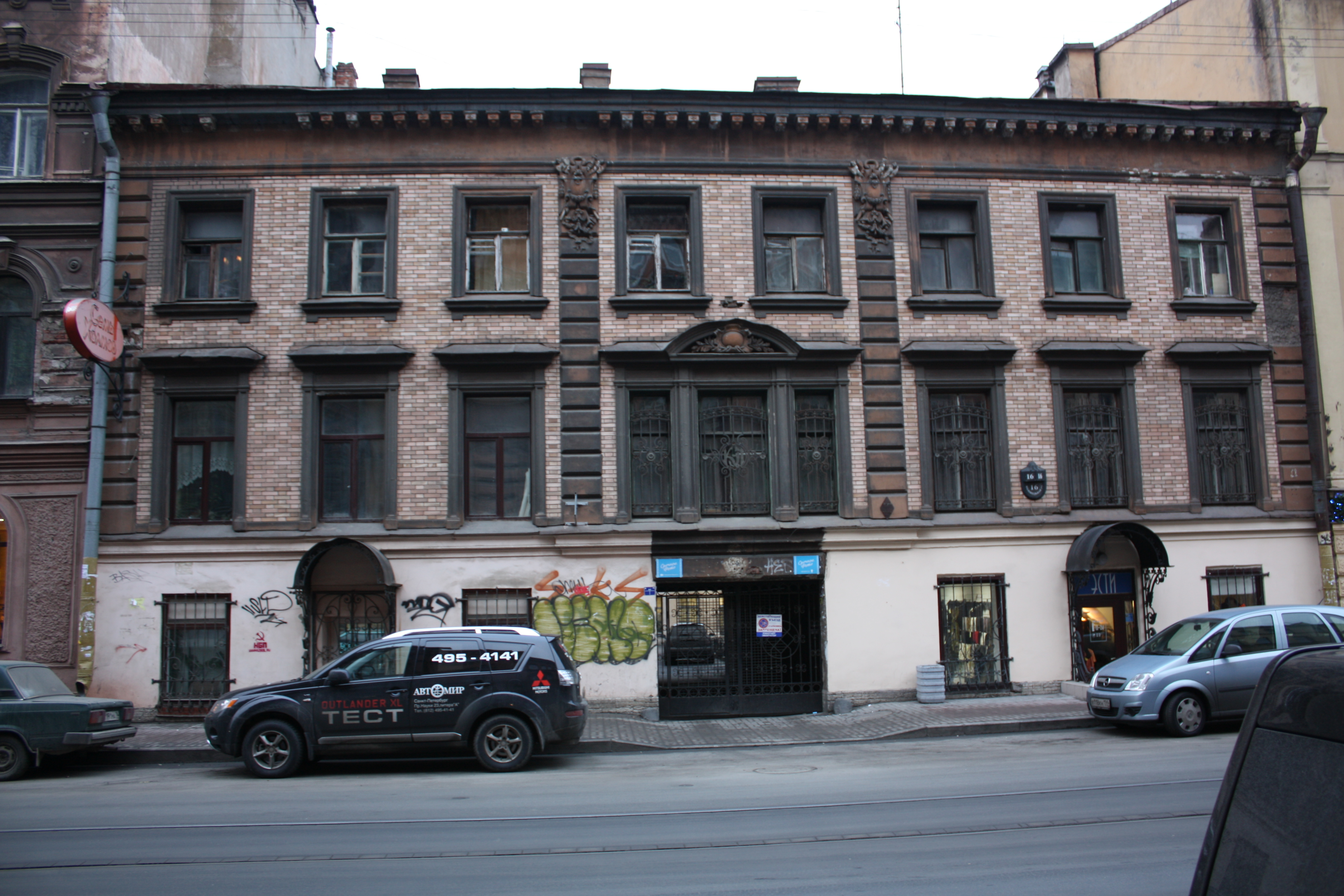 16 Kolokolnaya St. Petersburg